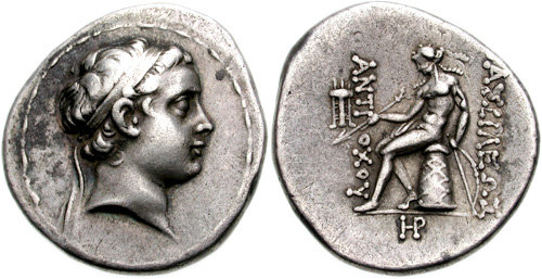 156019. Sold For $2750 SELEUKID KINGS of SYRIA. Antiochos, son of Seleukos IV. Circa 175-170 BC. AR Tetradrachm (29mm, 16.75 gm, 1h). Antioch mint. Diademed head right / BASILEWS ANTIOCOU, Apollo seated left on omphalos, nude but for slight drapery on right thigh, holding three arrows in right hand, left hand resting on bow; tripod to left, HP monogram in exergue. SNG Spaer 956 var. (monogram; same obverse die); Le Rider, Antioche 1-4 (obv. die A1); SMA 45; Houghton 93 var. (same; same obverse die). VF, toned. Very rare. The young Antiochos was the victim of a power play between Heliodoros, his father's chief minister, and his own uncle, who became Antiochos IV.